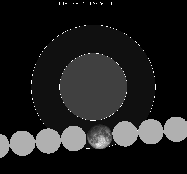 December 2048 lunar eclipse chart of moon's path through the earth's shadow. thumb